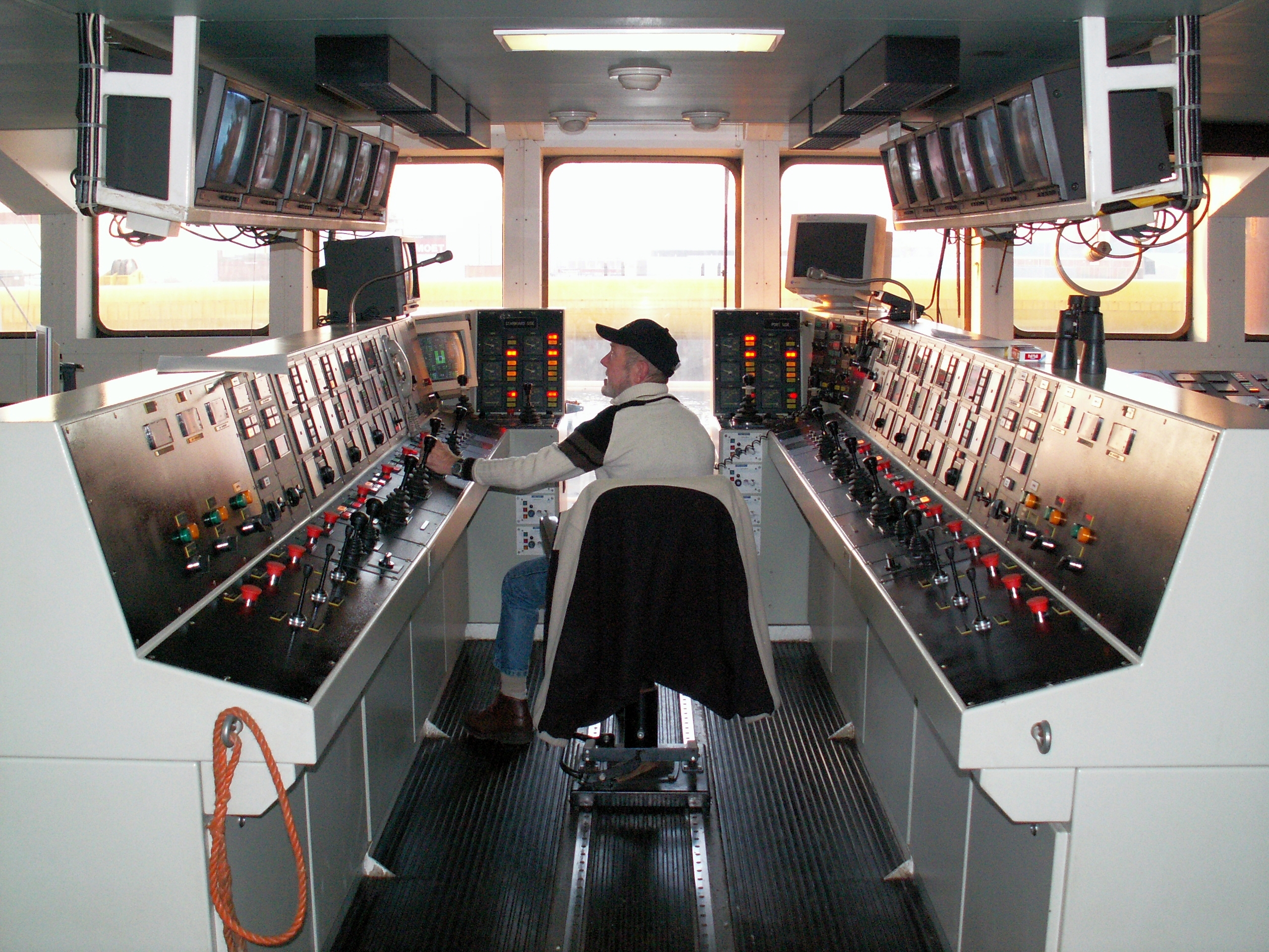 These are the 8 control consoles for the anchor positioning / steering. Photographed at Port of Rotterdam, The Netherlands